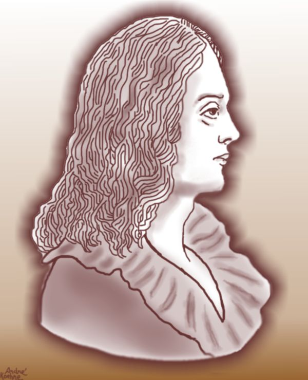 I don't do art for a living, neither for personal nor professional propaganda. I don't make any drawings for money. Thanks.